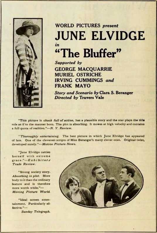 Ad for the American film The Bluffer (1919) with June Elvidge, on page 432 of the January 25, 1919 Moving Picture World.